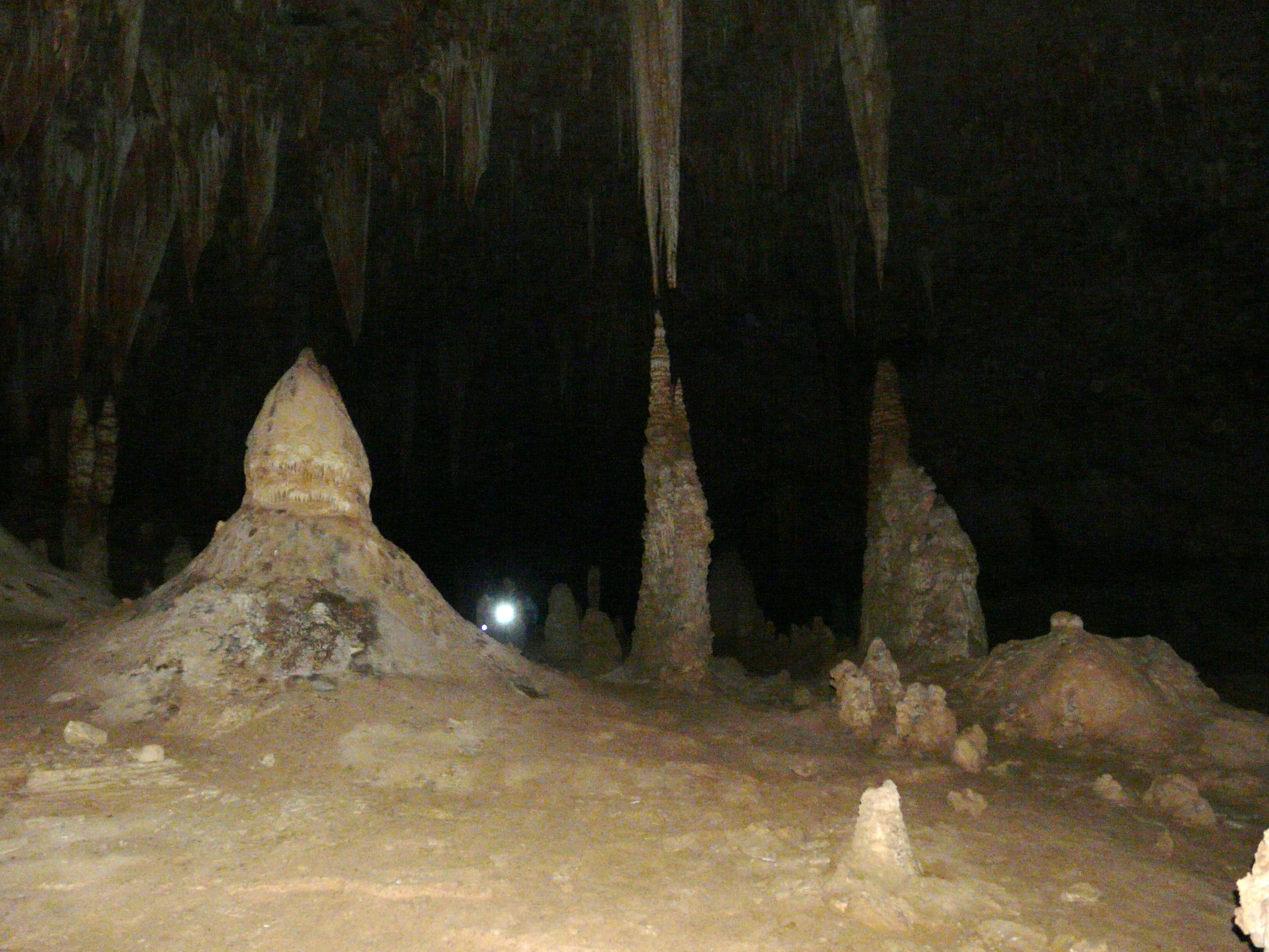 Hawk cave in Hala, East of Socotra island. It is about 15 meters in diameter, 8 meter height, 500 to 1000 meter horizontally deep.